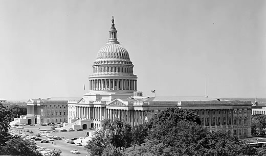 The East Front in 1956, before the Extension Project